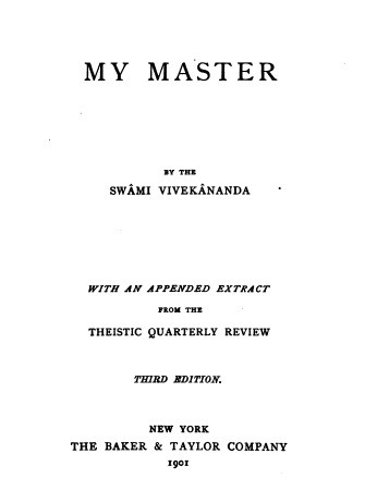 Title page of My Master, 1901 edition, written by Swami Vivekananda and published by The Baker and Taylor Company, New York